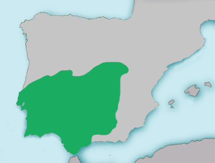 Distribution map of Squalius alburnoides in Iberian Peninsula.